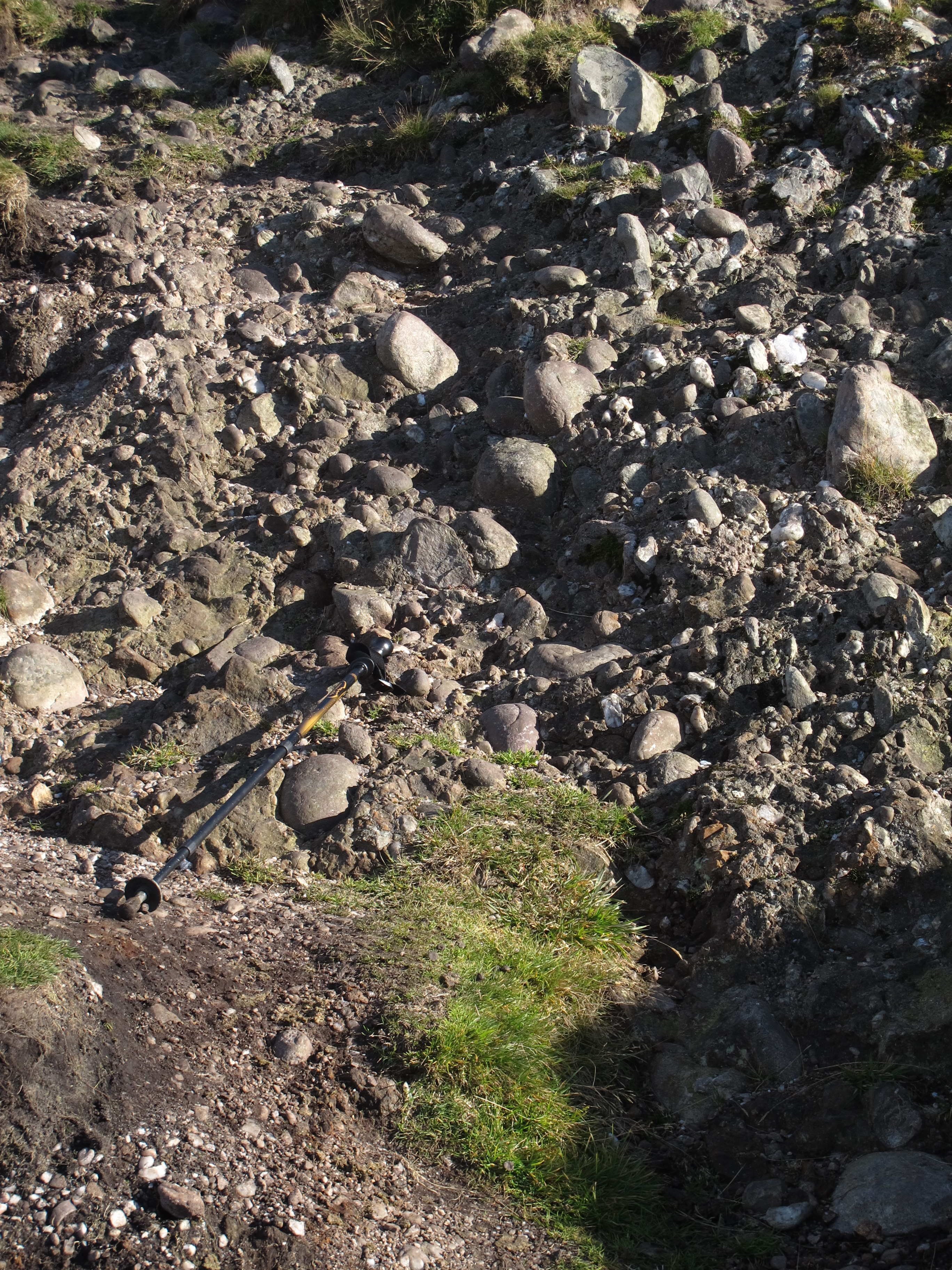 Polymict conglomerate of Lower Devonian age (Inchmurrin Conglomerate Member of the Ruchill Flagstone Formation) - clasts of granule, pebble, cobble and boulder size in a coarse sandstone matrix - Conic Hill near Balmaha, walking pole 1.2 m long for scale